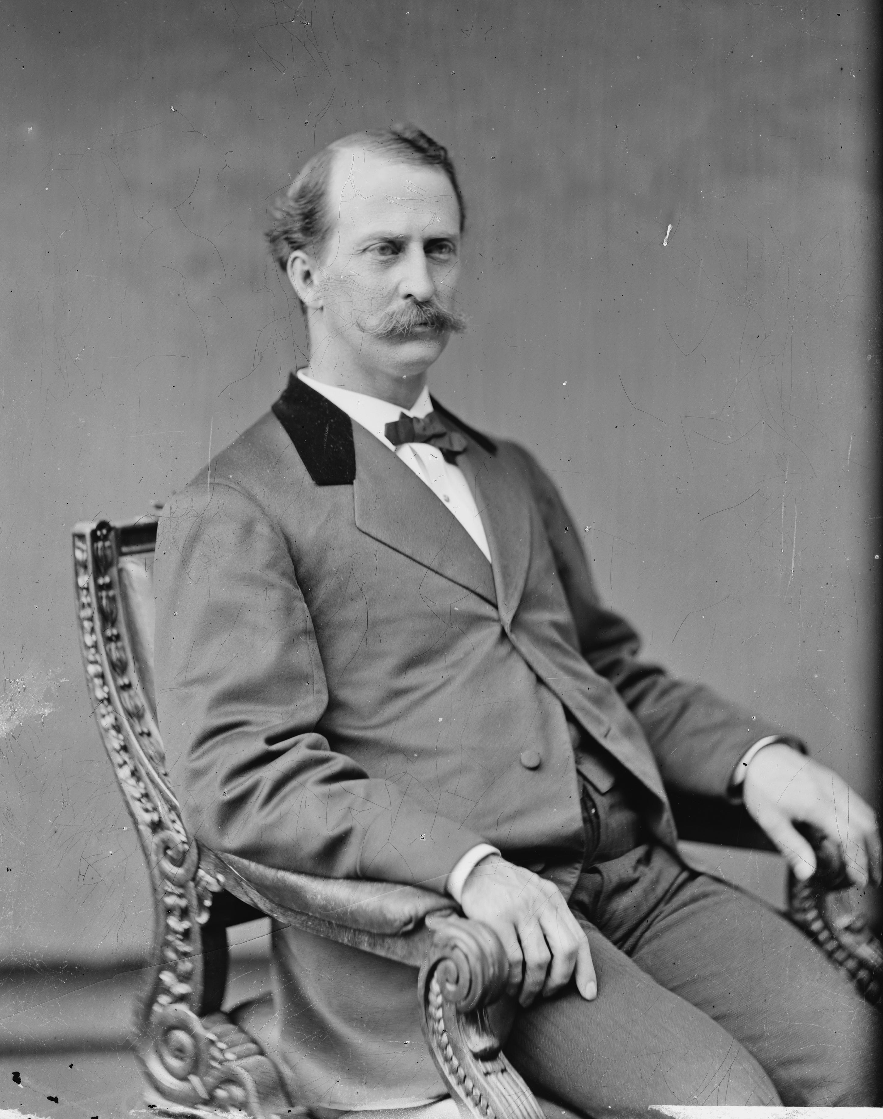 Edward Miner Gallaudet. Library of Congress description: "Gallaudet, Proff. Edward M."